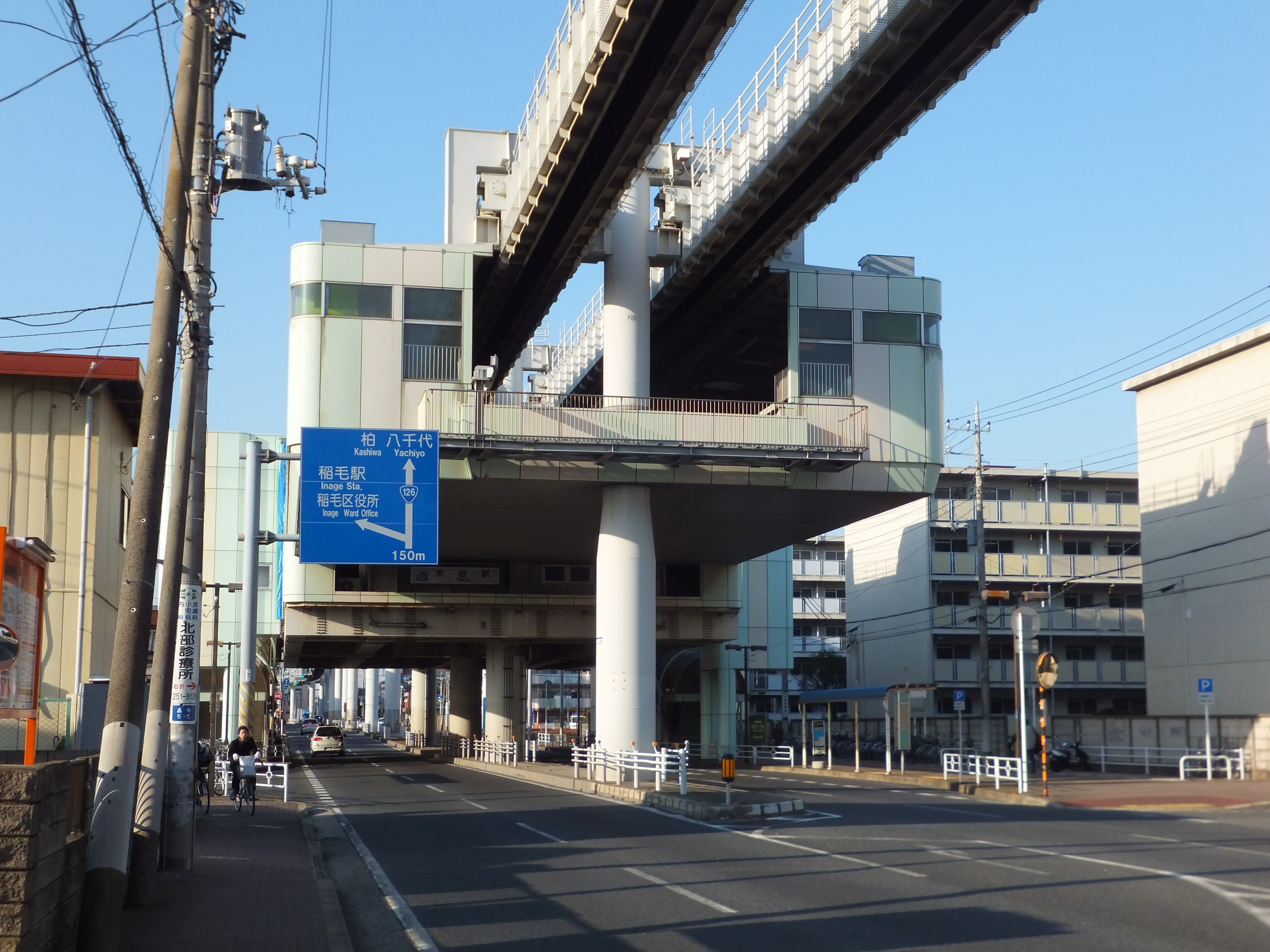 Tendai Station on Chiba Urban Monorail Line 2 in Inague ward, Chiba city, Japan.